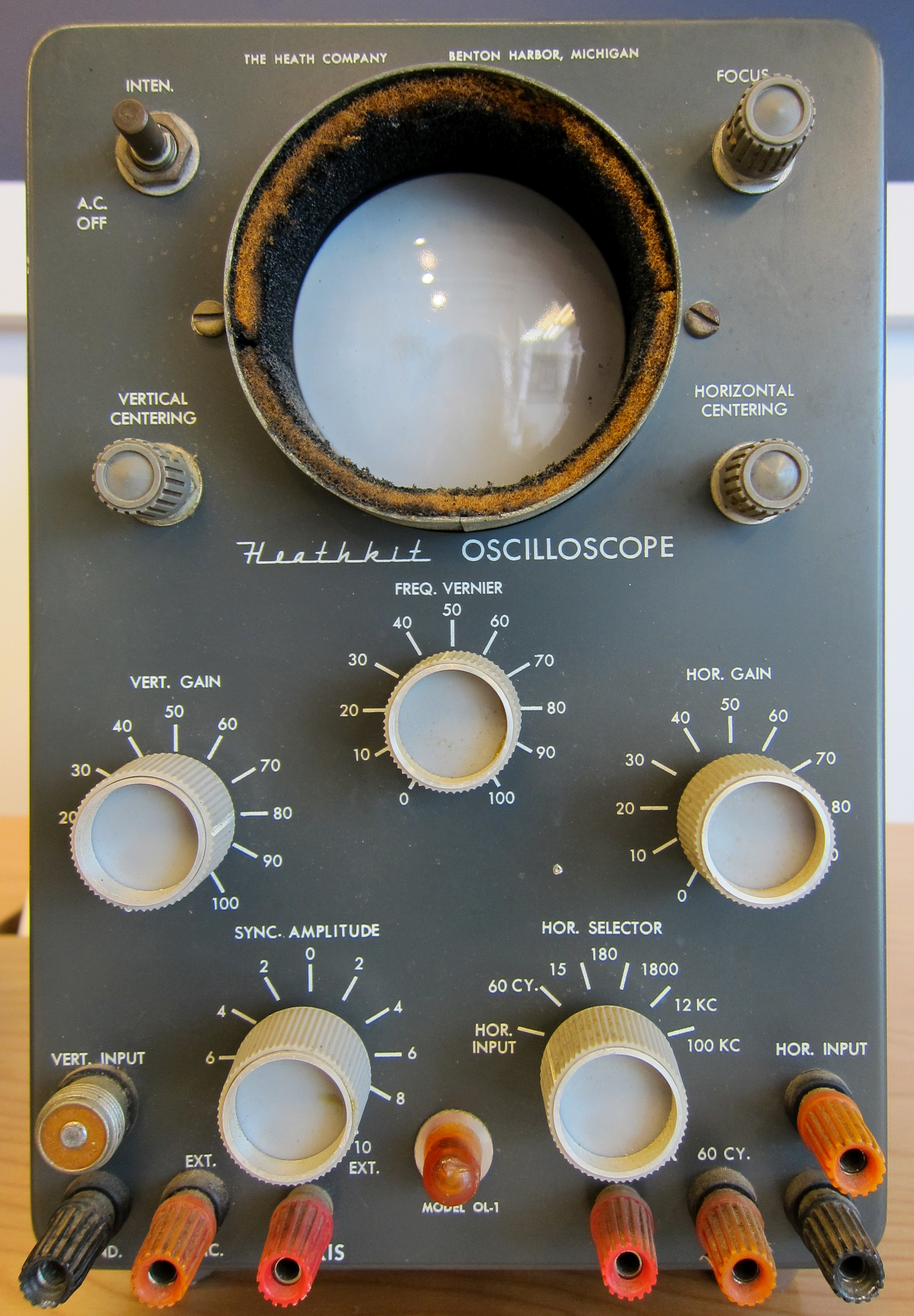 Heathkit Oscilloscope OL-1 (See also exhibition label)